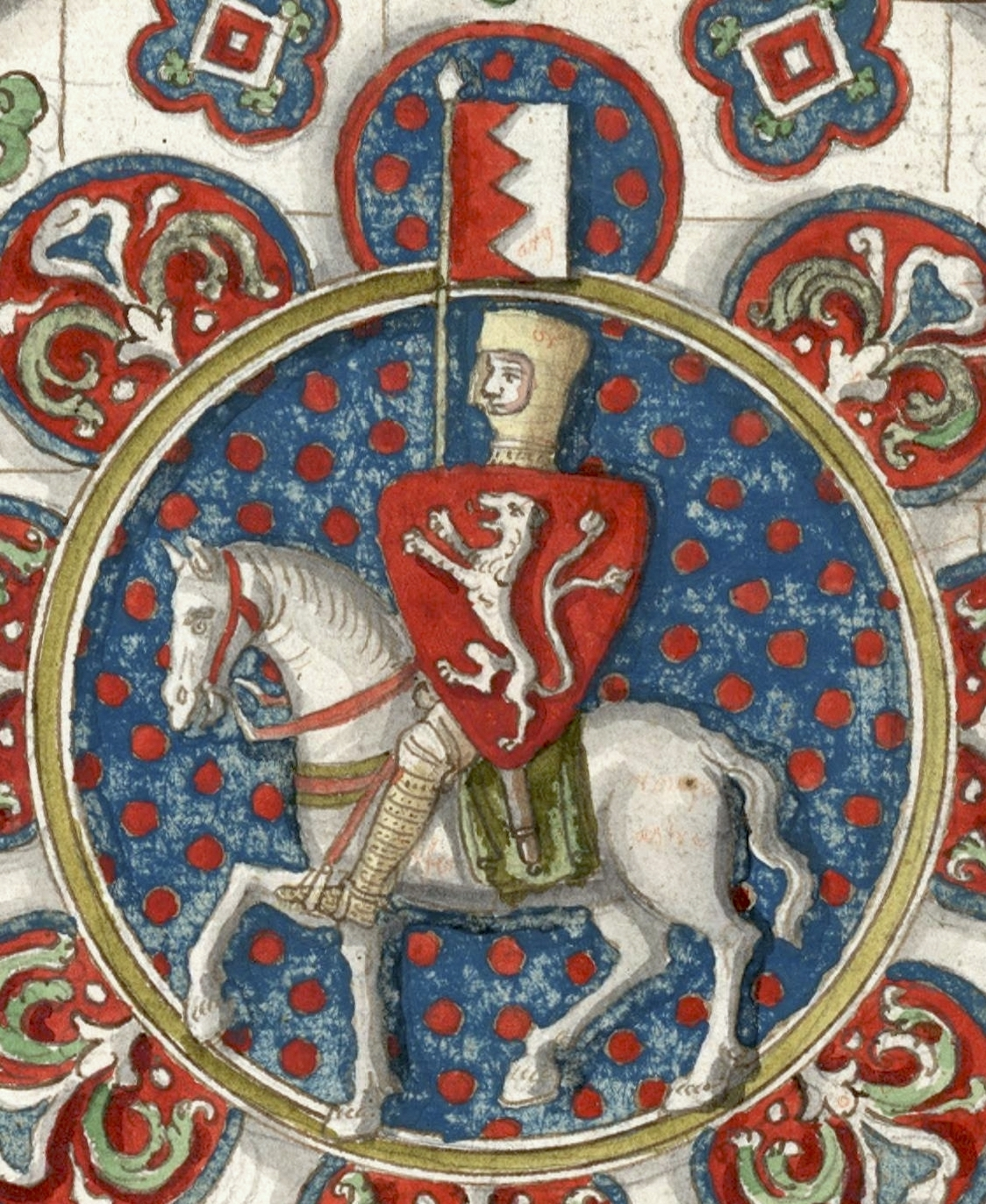 Drawing of a stained glass window of Chartres Cathedral, depicting Simon de Montfort, 6th Earl of Leicester